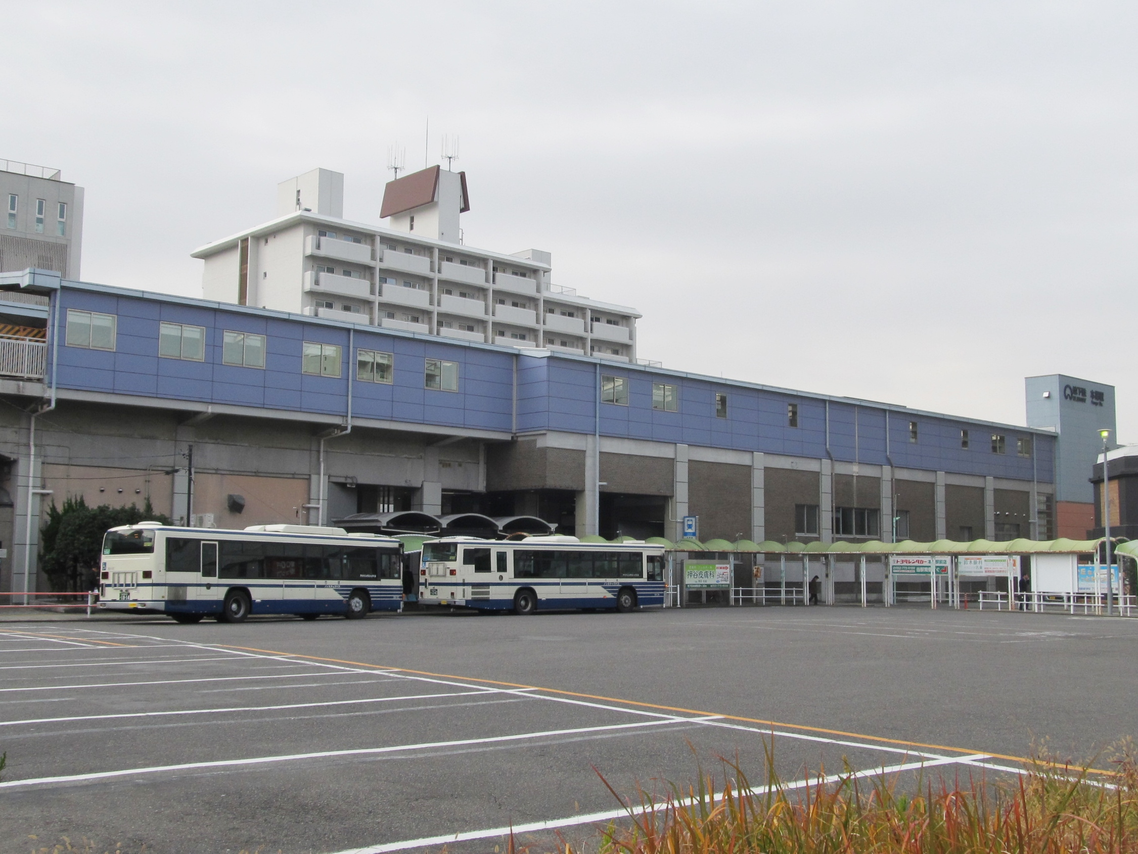 Transportation Bureau City of Nagoya, Nagoya Municipal Subway Higashiyama Line Hongō Station